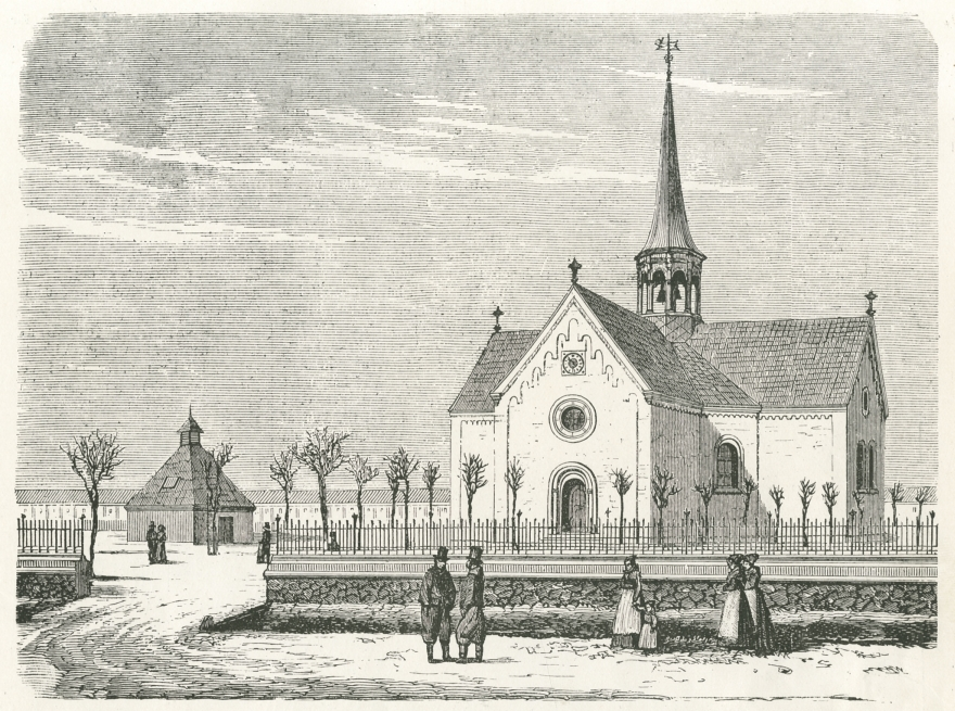 Sundby Kirke in Vopenhagen, Denmark